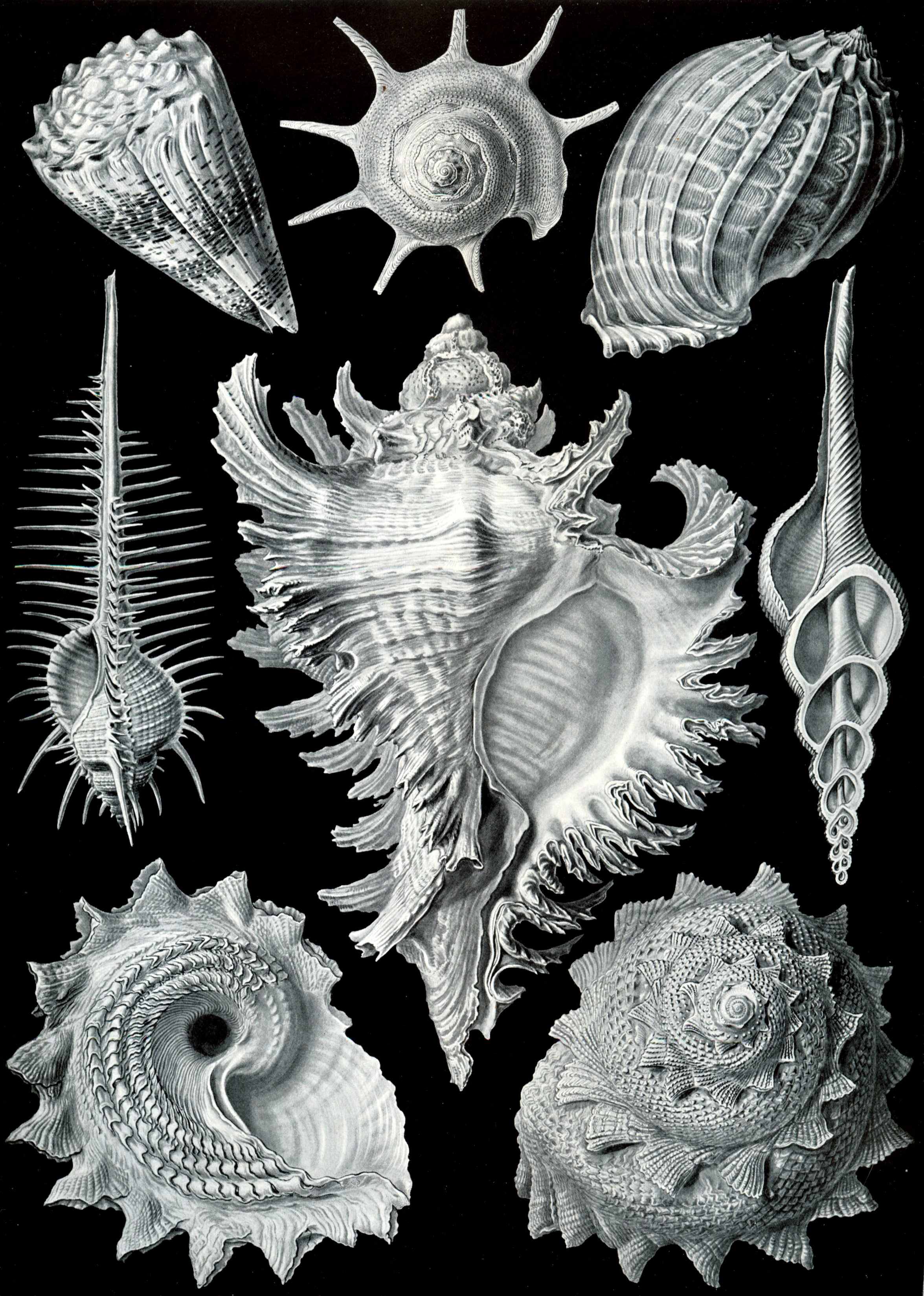 Calcar triumphans (Philippi) = Guildfordia triumphans (Philippi, 1841), from above Conus imperialis (Linné) = Conus imperialis Linnaeus, 1758[1] Harpa ventricosa (Lamarck) = Harpa Röding Röding, 1798[2] Murex tenuispinus (Lamarck) = Murex pecten pecten Lightfoot, 1786[3] Murex inflatus (Lamarck) = Chicoreus ramosus (Linnaeus, 1758)[4] Fusus longicauda (Lamarck) = Fusinus colus (Linnaeus, 1758)[5], cut open Astralium imperiale (Chemnitz) = Astraea heliotropium Martyn, 1784, from below Astralium imperiale (Chemnitz) = Astraea heliotropium Martyn, 1784, from above Astraea heliotropium